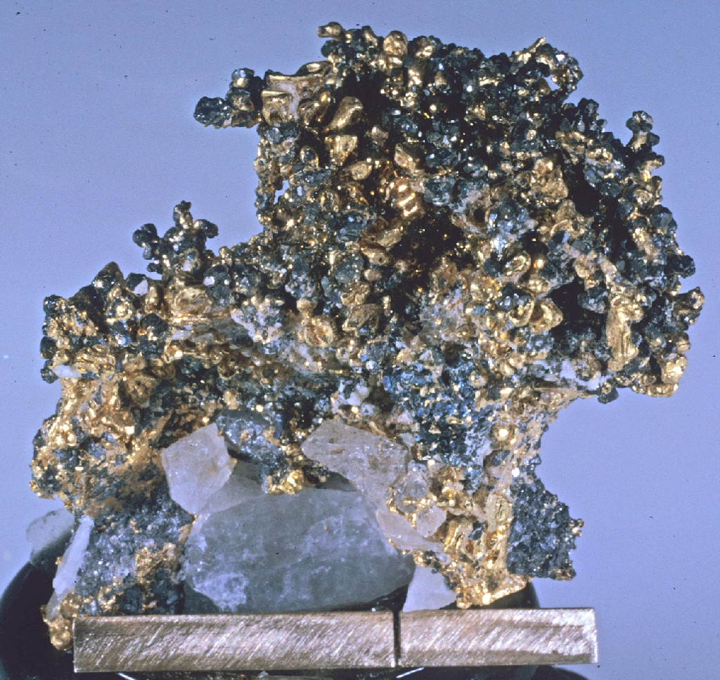 Altaite (gray) and Gold - Locality: Browns Flat, Bald Mt, Calaveras County, California, USA - Specimen is from the collection of C.D. Woodhouse 1974 - Scale at bottom of image is one inch with a rule at one cm.